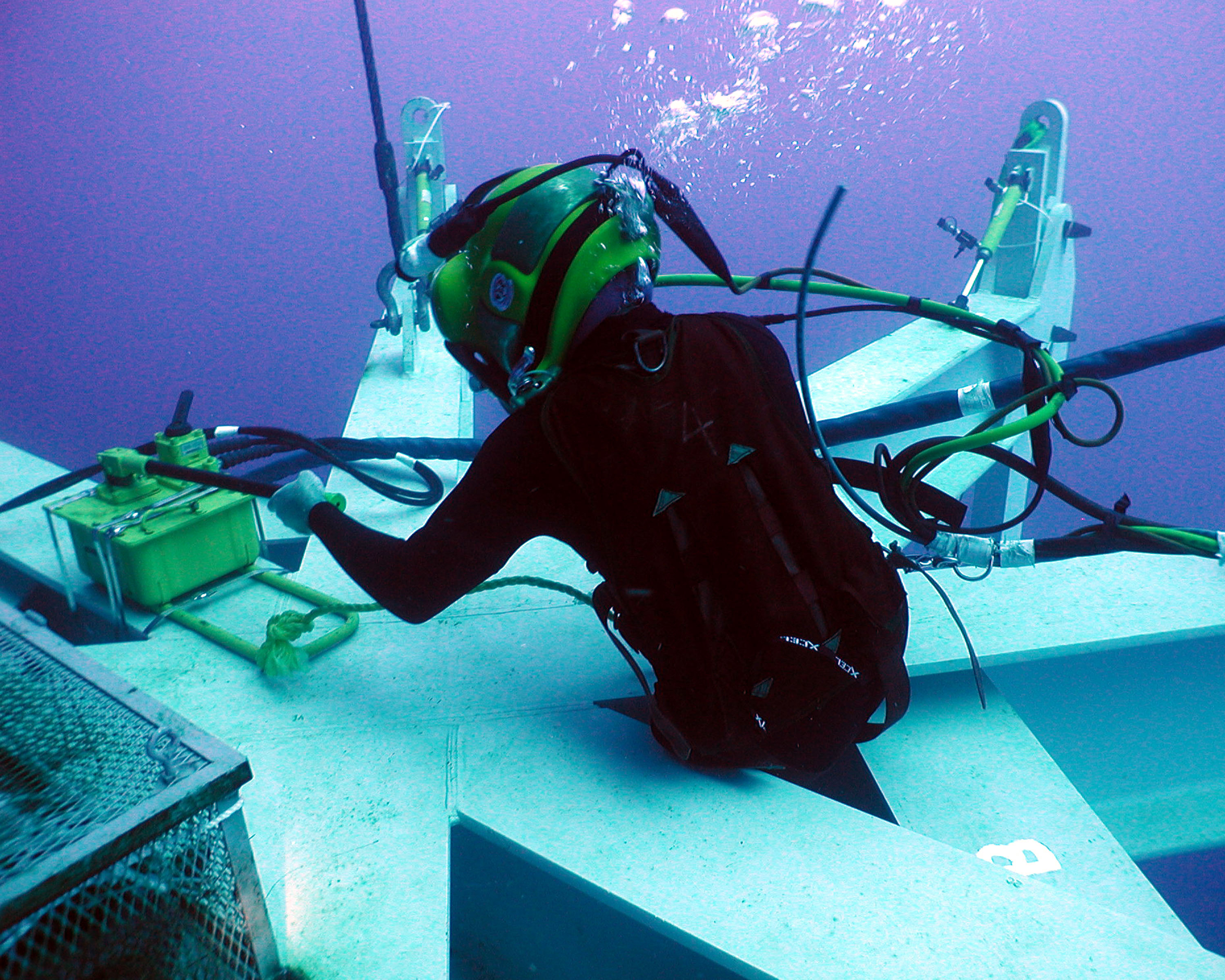 Atlantic Ocean (Jul. 17, 2002) -- Navy diver Hull Maintenance Technician 1st Class Steve Grier works on extending a piece of equipment called "the spider," which is being used to raise the gun turret of the sunken Civil War ironclad USS Monitor. The famed warship sank during a storm Dec. 31, 1862, off Cape Hatteras, N.C., as she was being towed to Beaufort, S.C. Four officers and 12 men were lost with the ship. Monitor was located in 1973 sixteen miles off the Cape by a team of scientists. The site was designated as the nation's first marine sanctuary in 1975. U.S. Navy photo by Photographer’s Mate 3rd Class Jeffrey Lehrberg. (RELEASED)